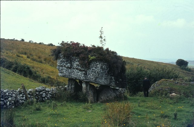 Dolmen at Carrickglass, Co. Sligo A Neolithic portal tomb is shown as 'Giant's Grave' on the O.S. six-inch map and is known locally as the Labby Rock.